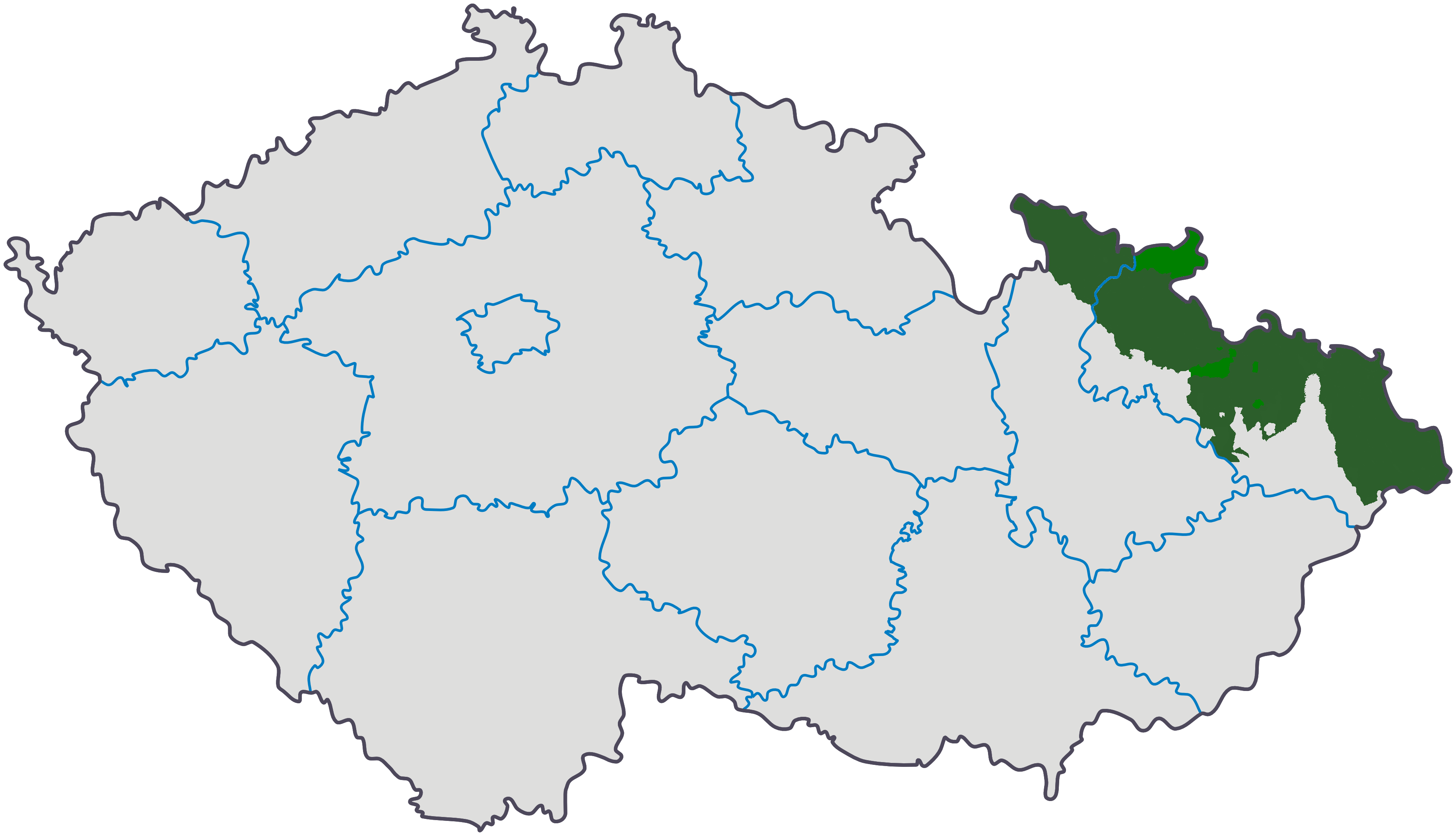 Czech Silesia (dark green); moravian enclaves in Silesia (green) governed by Silesian authorities till 1928. After creation of province of Moravia and Silesia they ceased to exist.